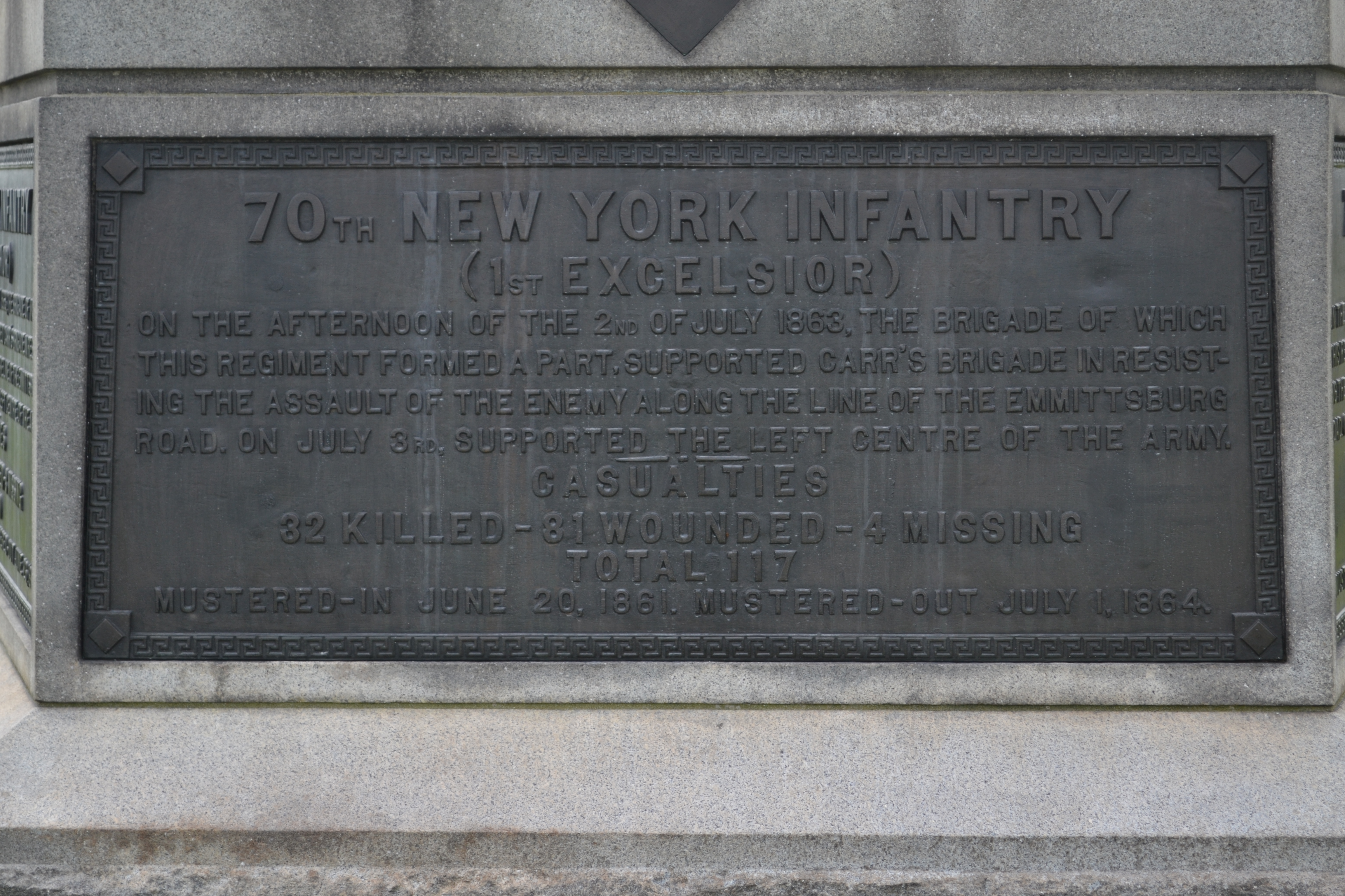 Plaque to the 70th New York Infantry Regiment on the Excelsior Brigade Monument - Gettysburg National Military Park